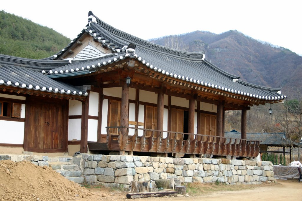 A scenery of Gasong Village (Andong), Andong City, Gyeongsangbuk-do, South Korea in autumn, 2006.